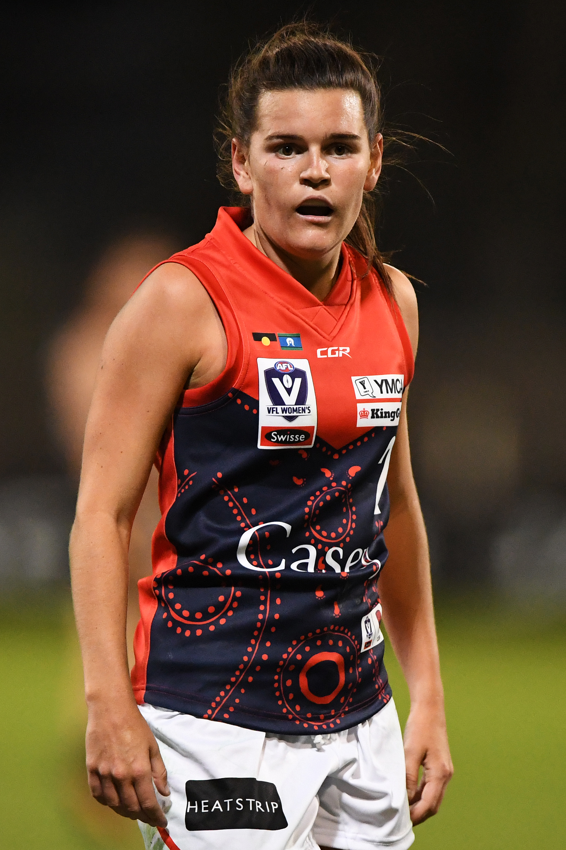 Lily Mithen of Casey during the 2019 VFLW round 11 match between NT Thunder and Casey at Traeger Park on Saturday, 20 July 2019 in Alice Springs, Northern Territory.